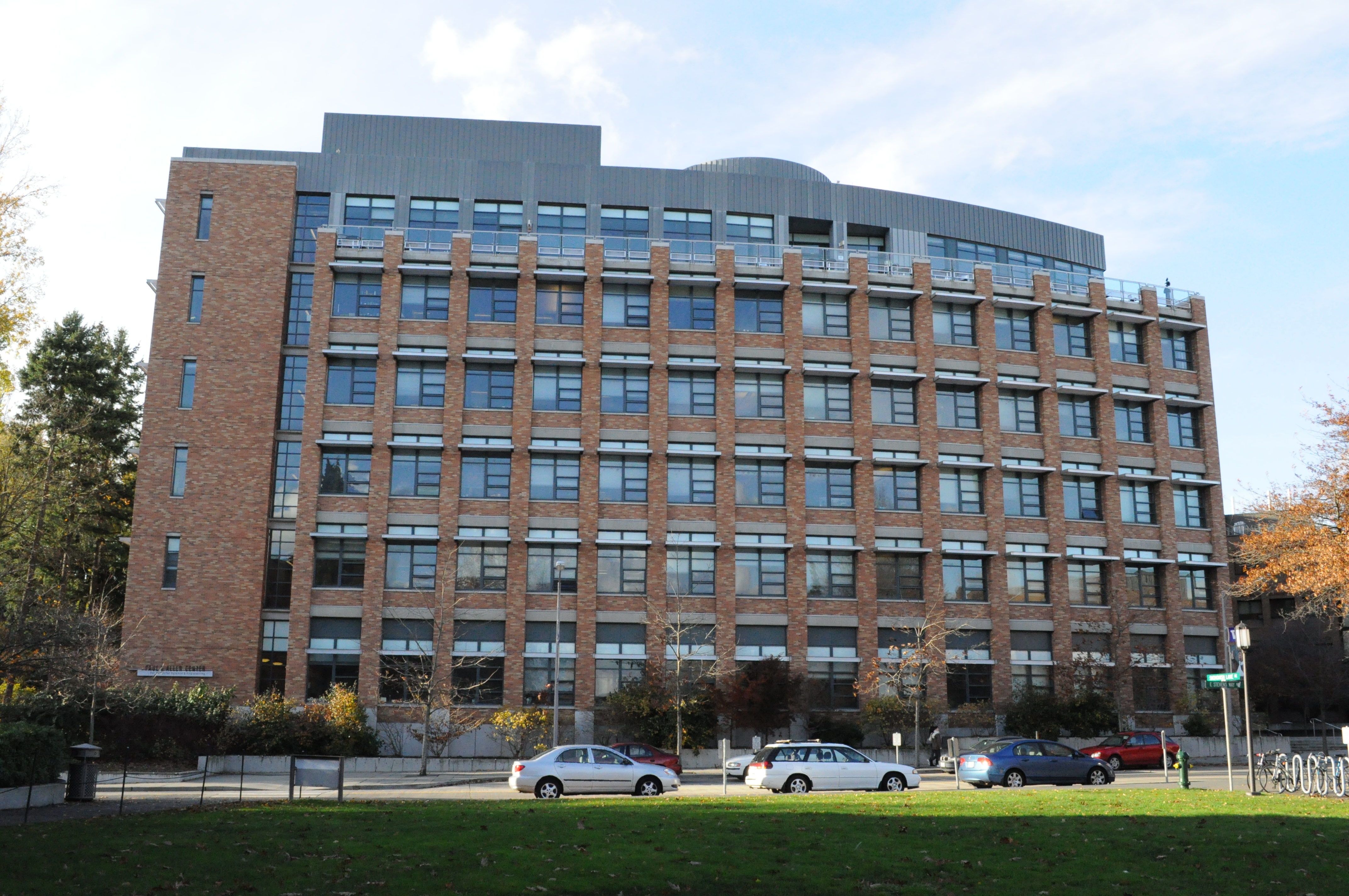 Paul G. Allen Center for Computer Science & Engineering, University of Washington, Seattle, Washington.